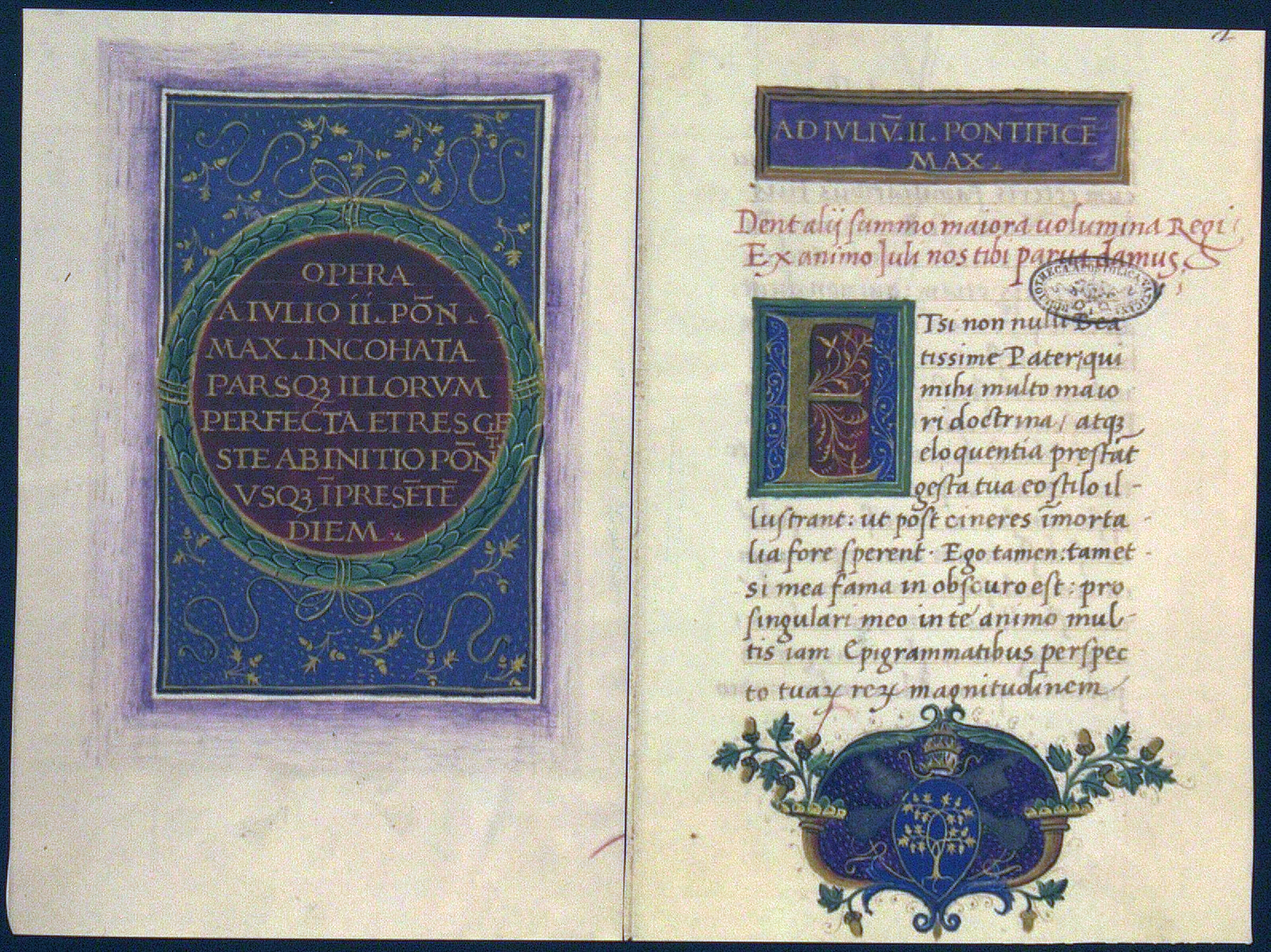 The beginning of the author’s preface to his biography of Pope Julius II in the dedication copy for the Pope, the manuscript Vatican City, Biblioteca Apostolica Vaticana, Vat. lat. 3702, fol. 1v–2r.